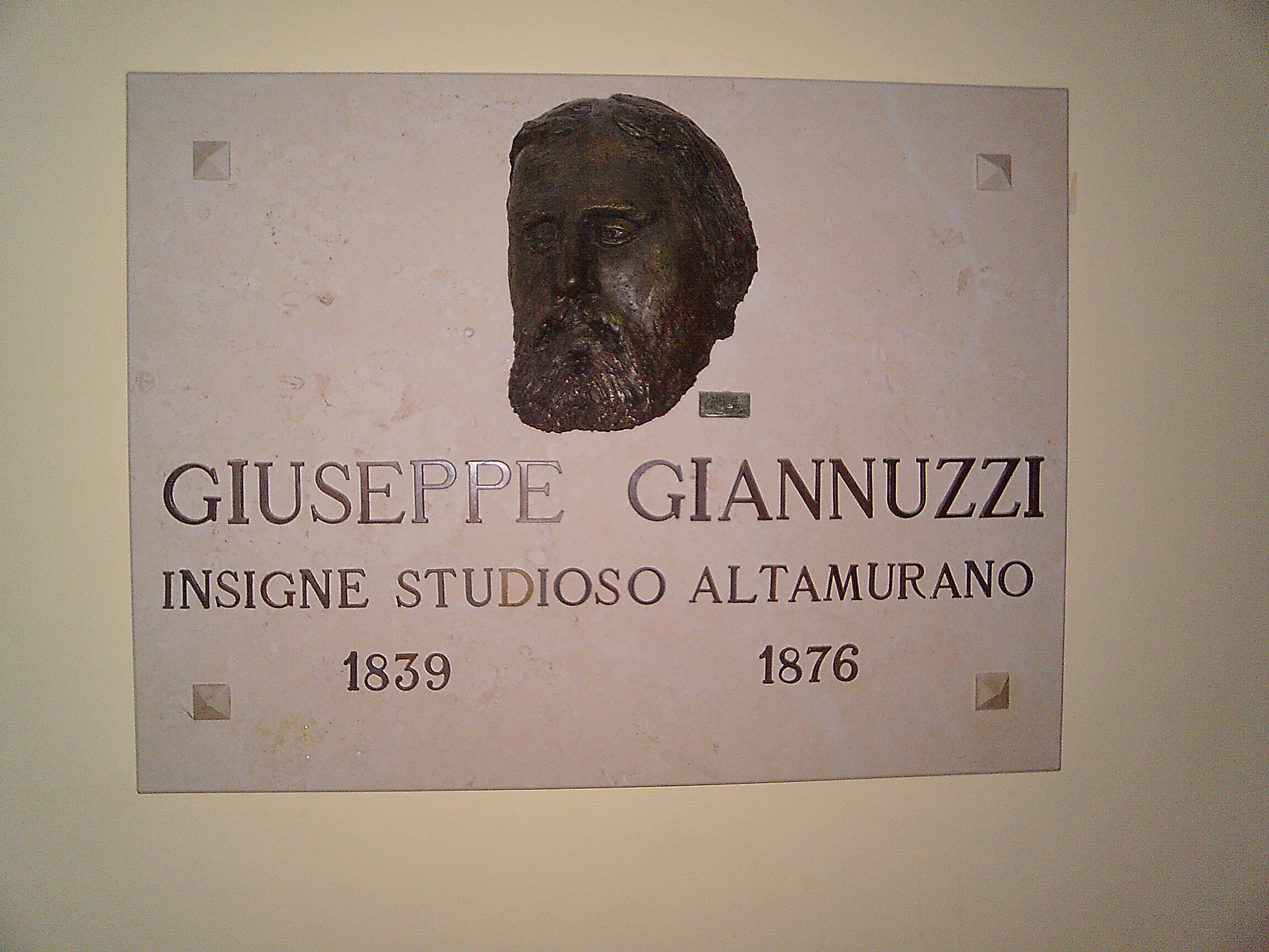 Lapide giannuzzi